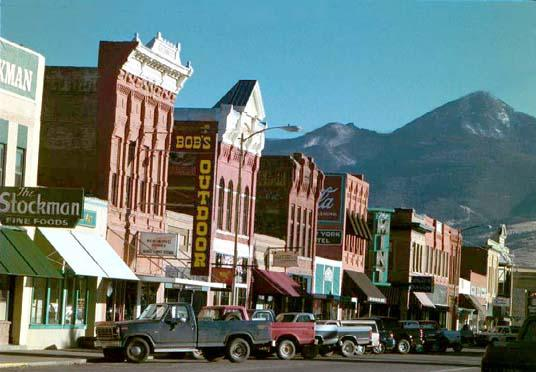 View of Downtown Livingston Montana. Viewpoint is on Main St., between E. Park and E. Callender Sts., looking southeast along Main St.